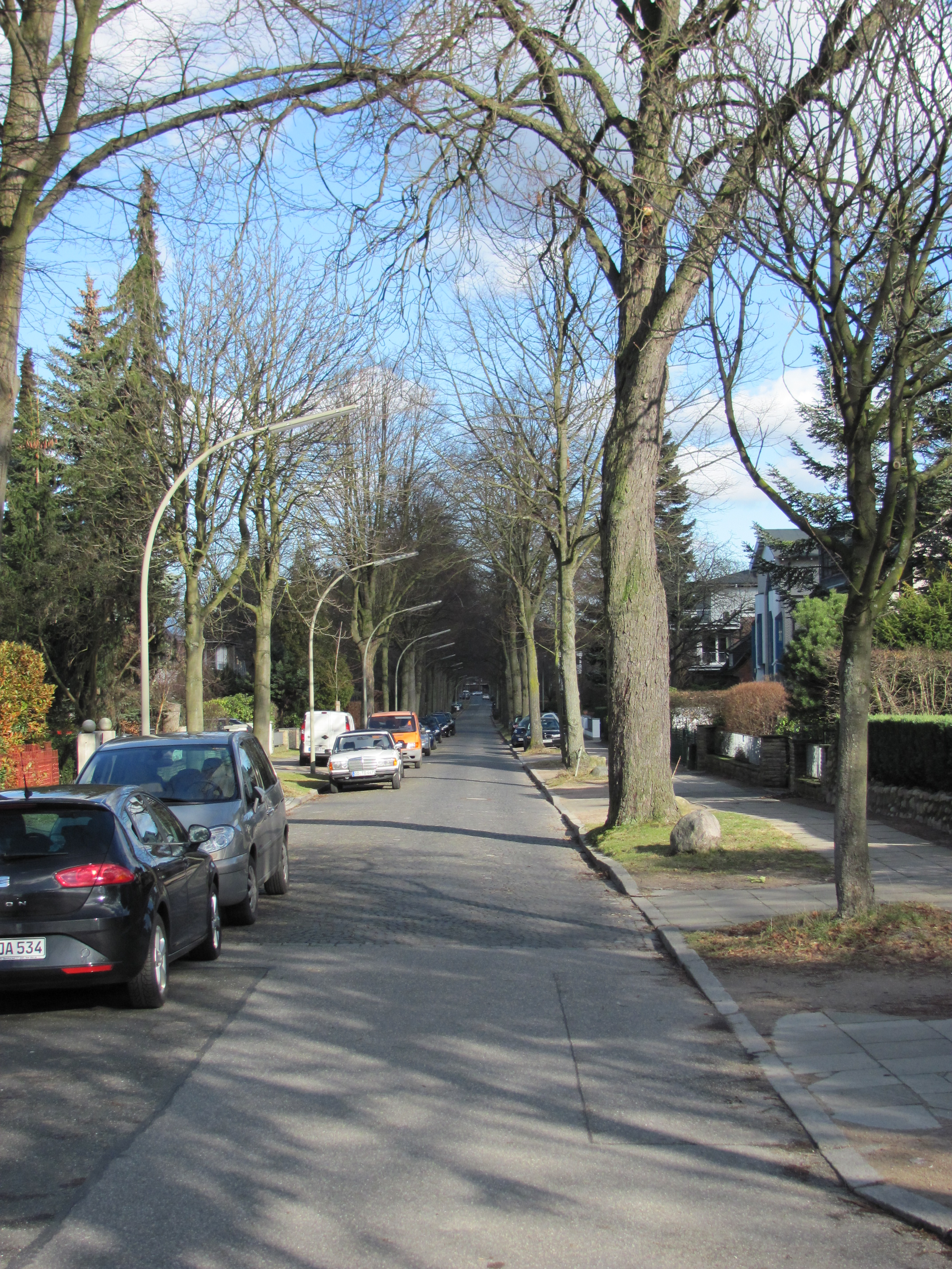 Nöpps street in Hamburg-Marienthal, Germany